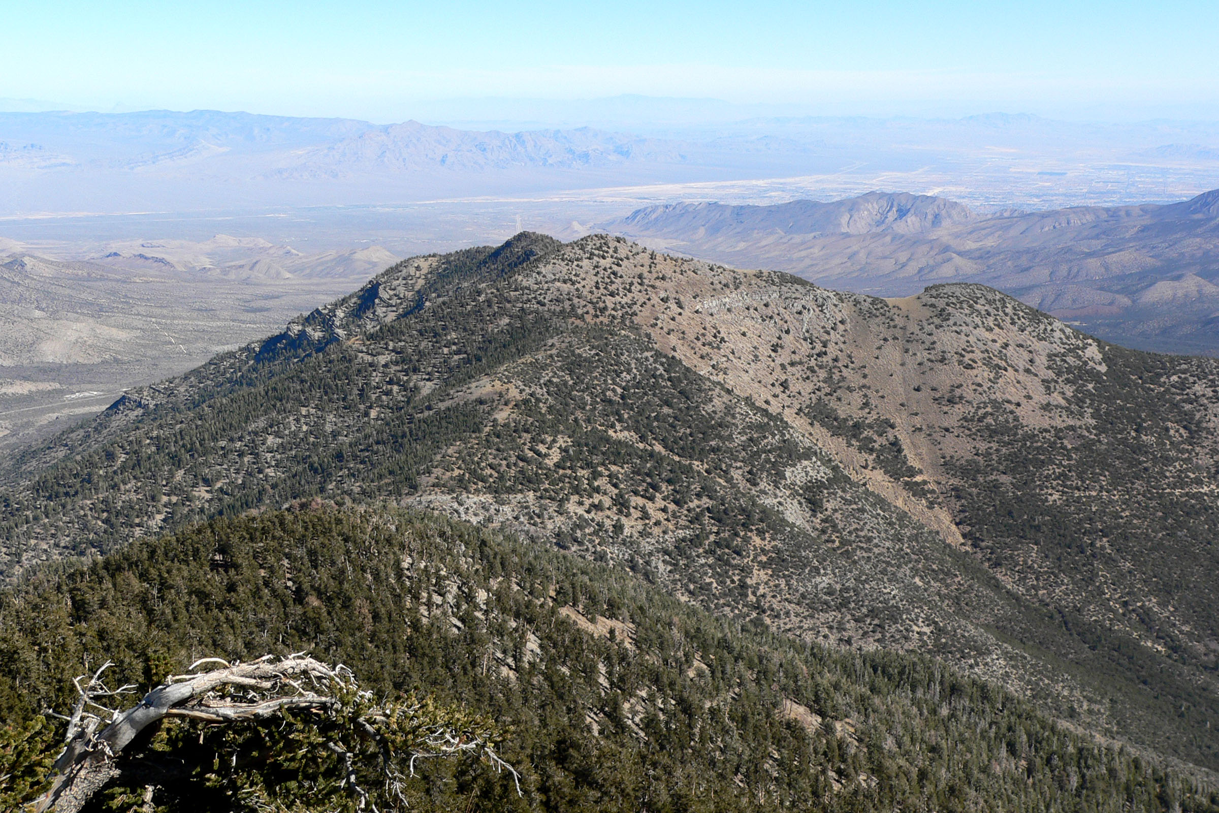 Harris Mountain seen from Griffith Peak, Spring Mountains, southern Nevada